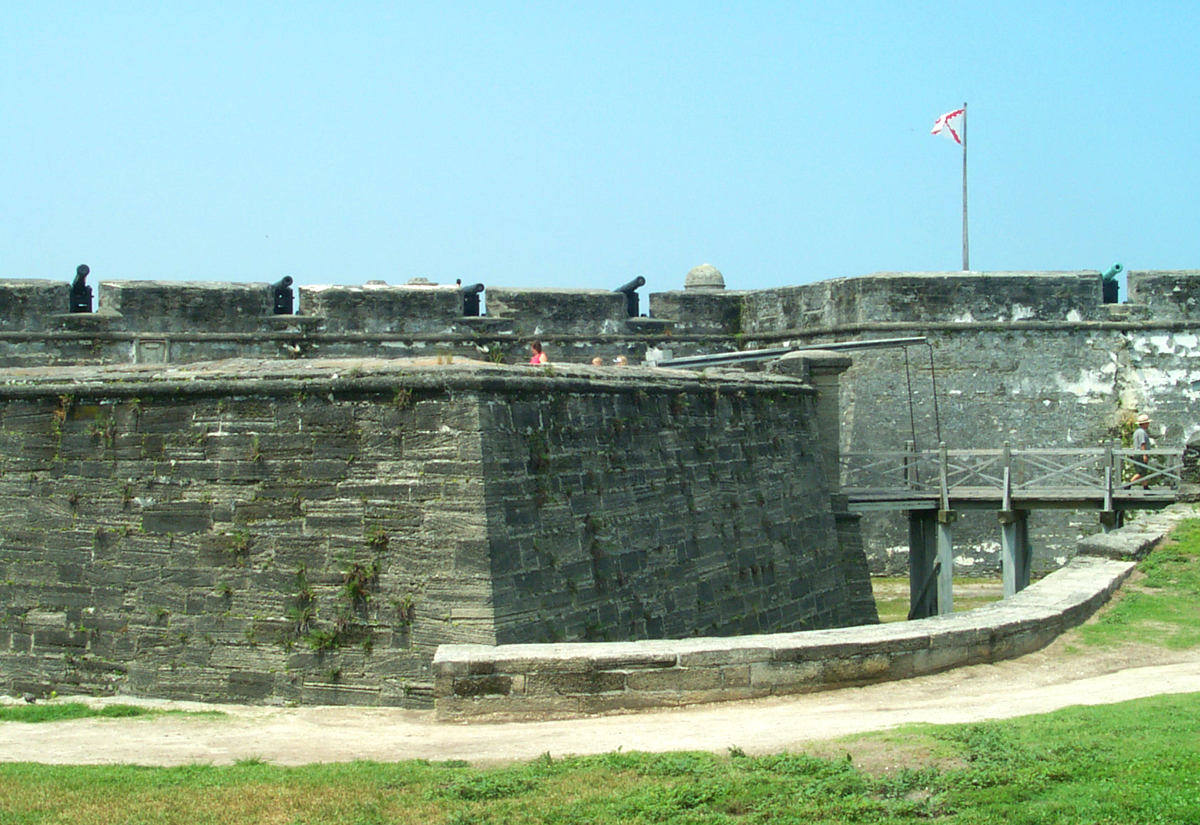 Four cannons overlook the walls of Castillo de San Marcos, the oldest masonry fort in the United States.